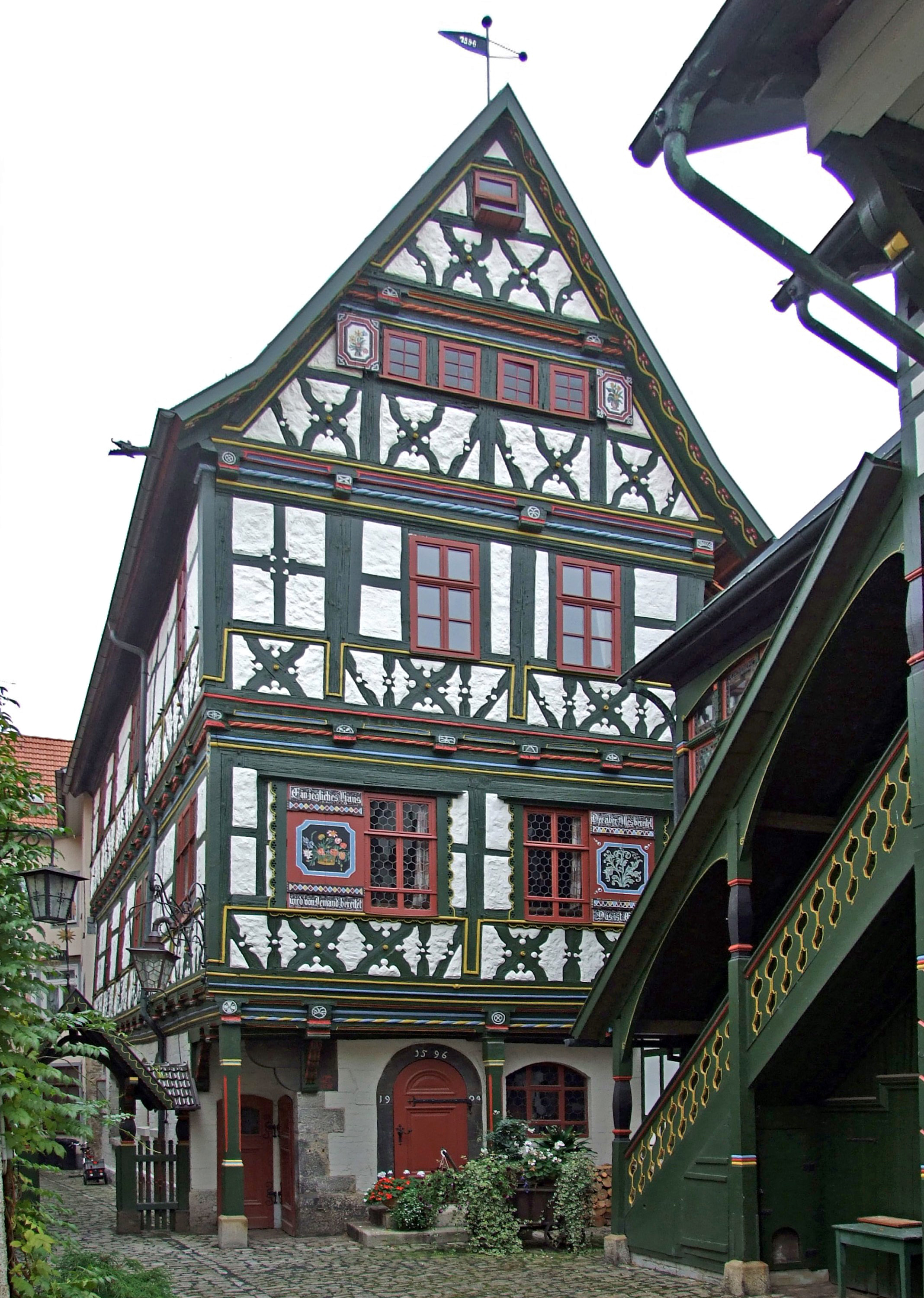 Buechnersches Hinterhaus, half-timbered house from 1596 in Meiningen, Germany